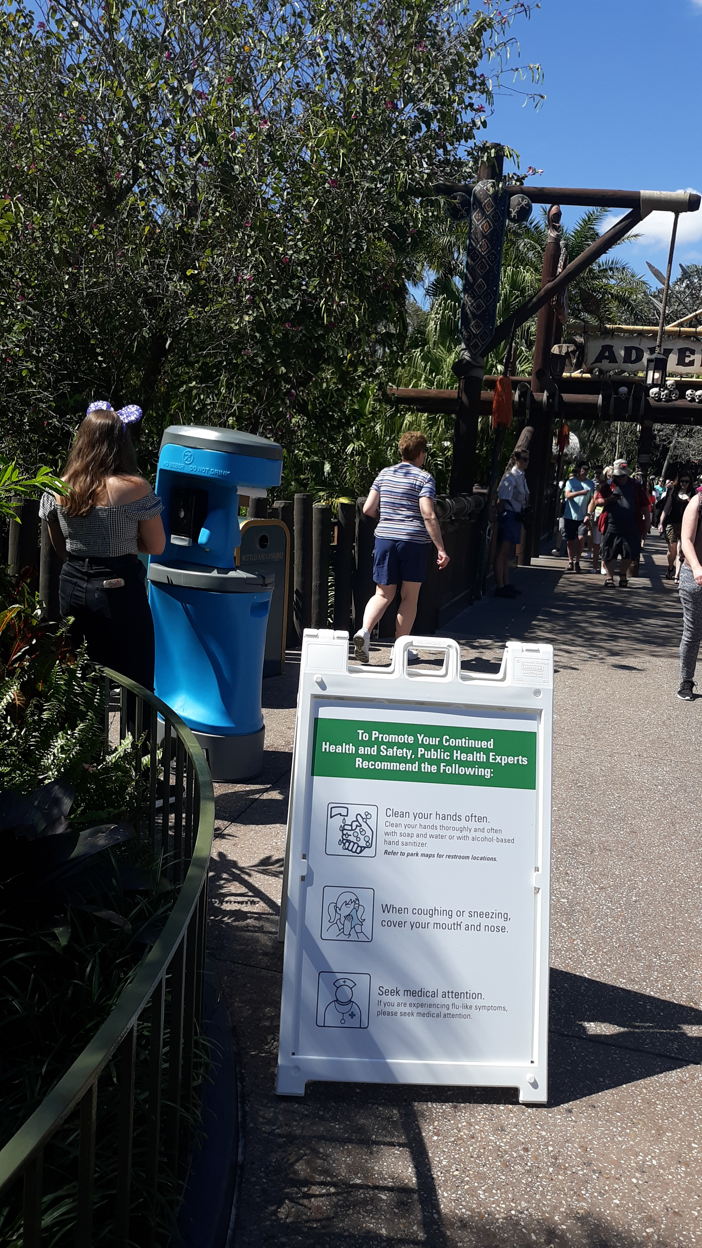 Handwashing stations and warnings signs at Walt Disney World amid the Covid19 pandemic. This was taken shortly before its closing